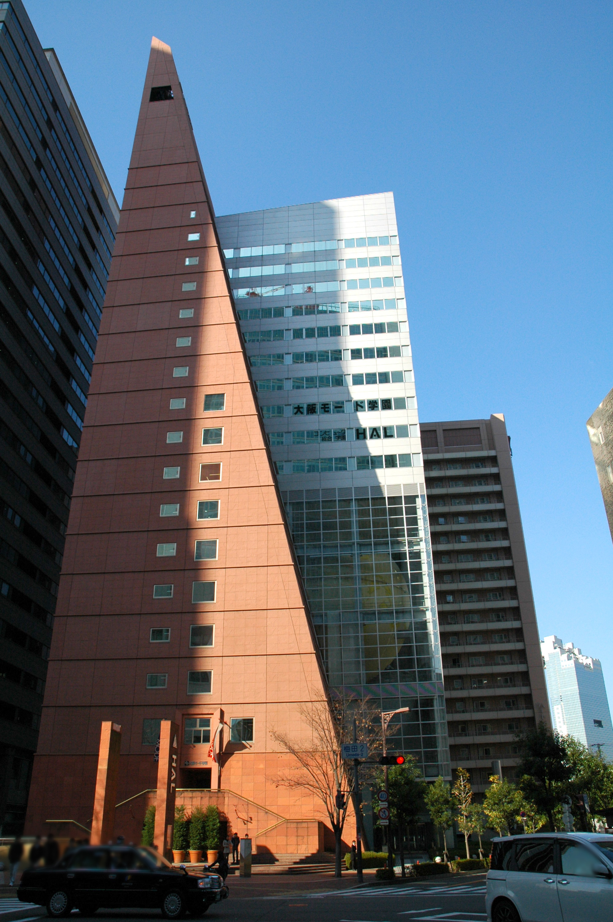 Osaka mode college & HAL Osaka in Osaka City.